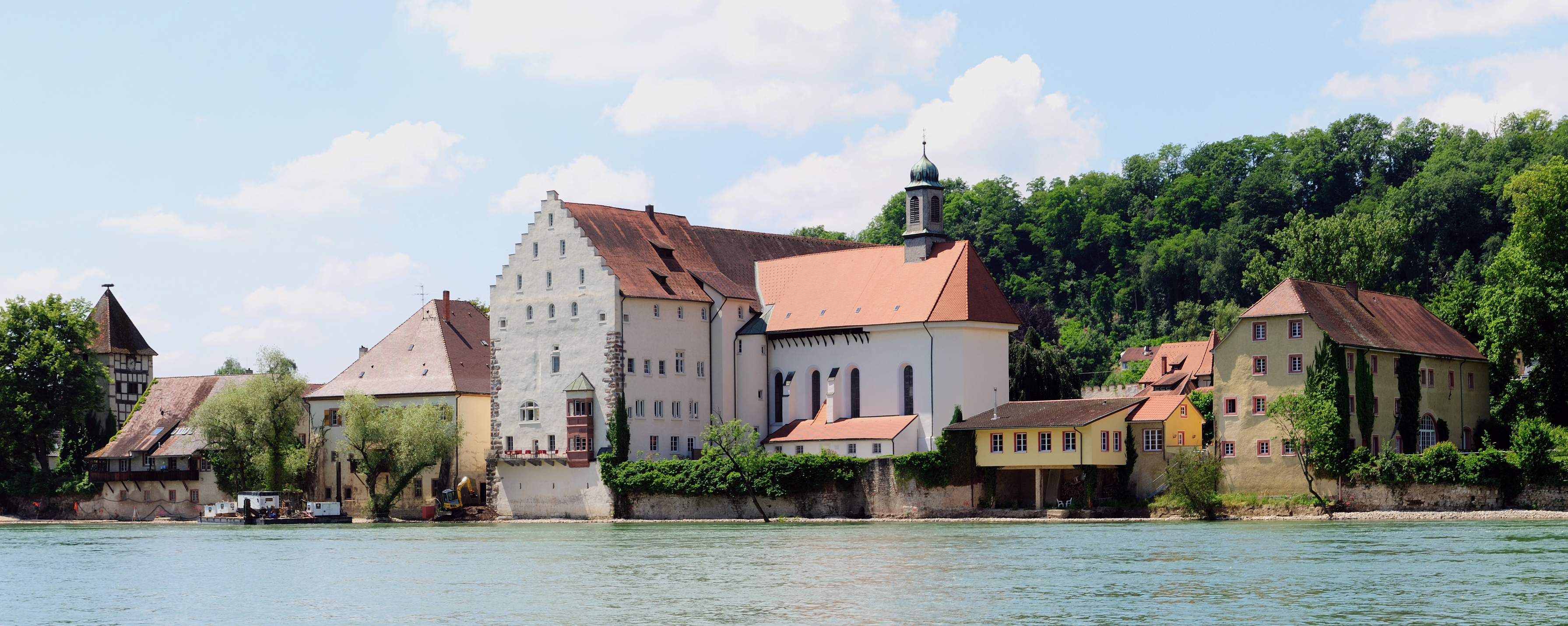 Rheinfelden: Castle Beuggen as seen from the swiss bank of the river Rhine.